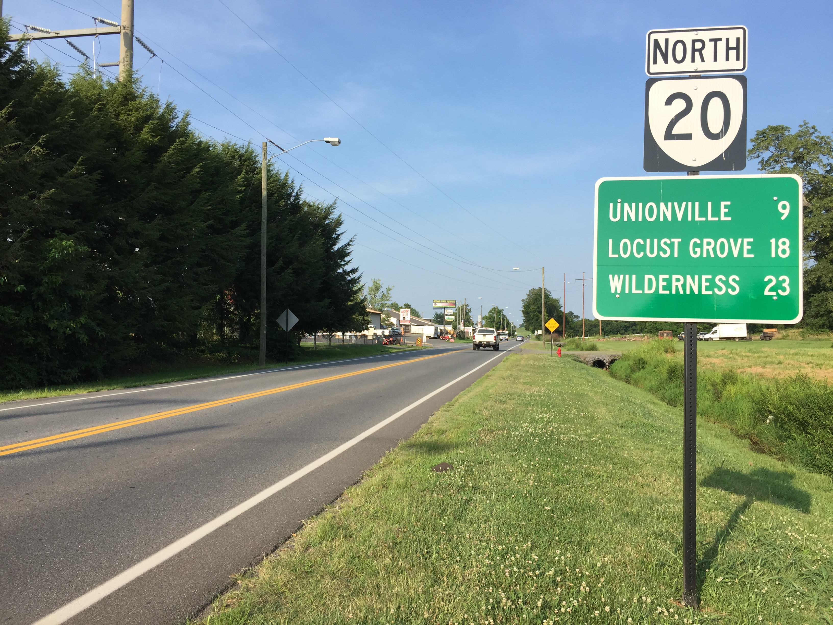 View north along Virginia State Route 20 (Berry Hill Road) between U.S. Route 15 (Caroline Street) and Warren Street in Orange, Orange County, Virginia